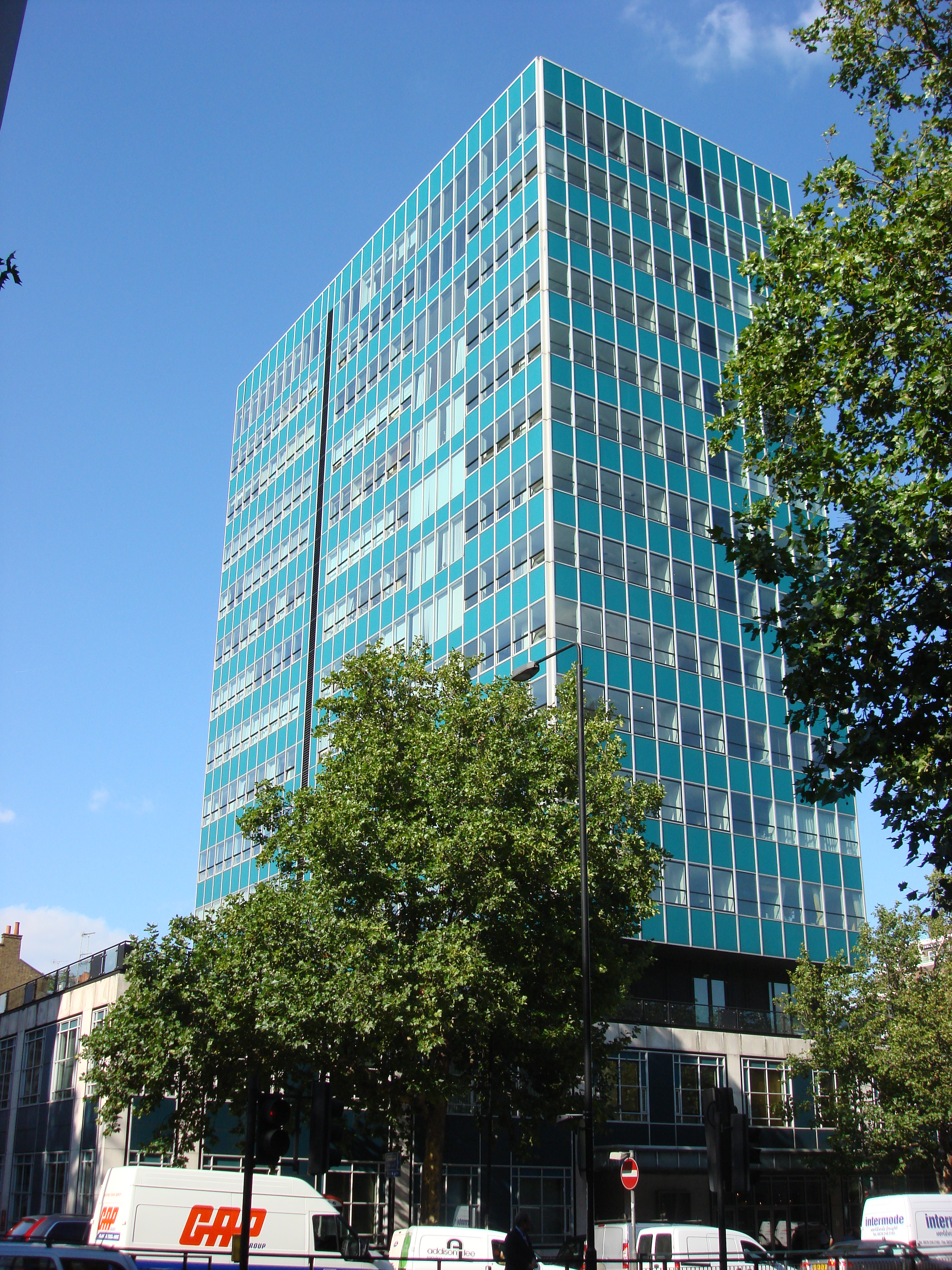 Marathon House, completed 1960 (then Castrol House), exhibited the first use of an American-style fully-glazed curtain wall in England. It is 49 m, 162 ft high and has 15 floors. The building was influenced by New York City's Lever House.